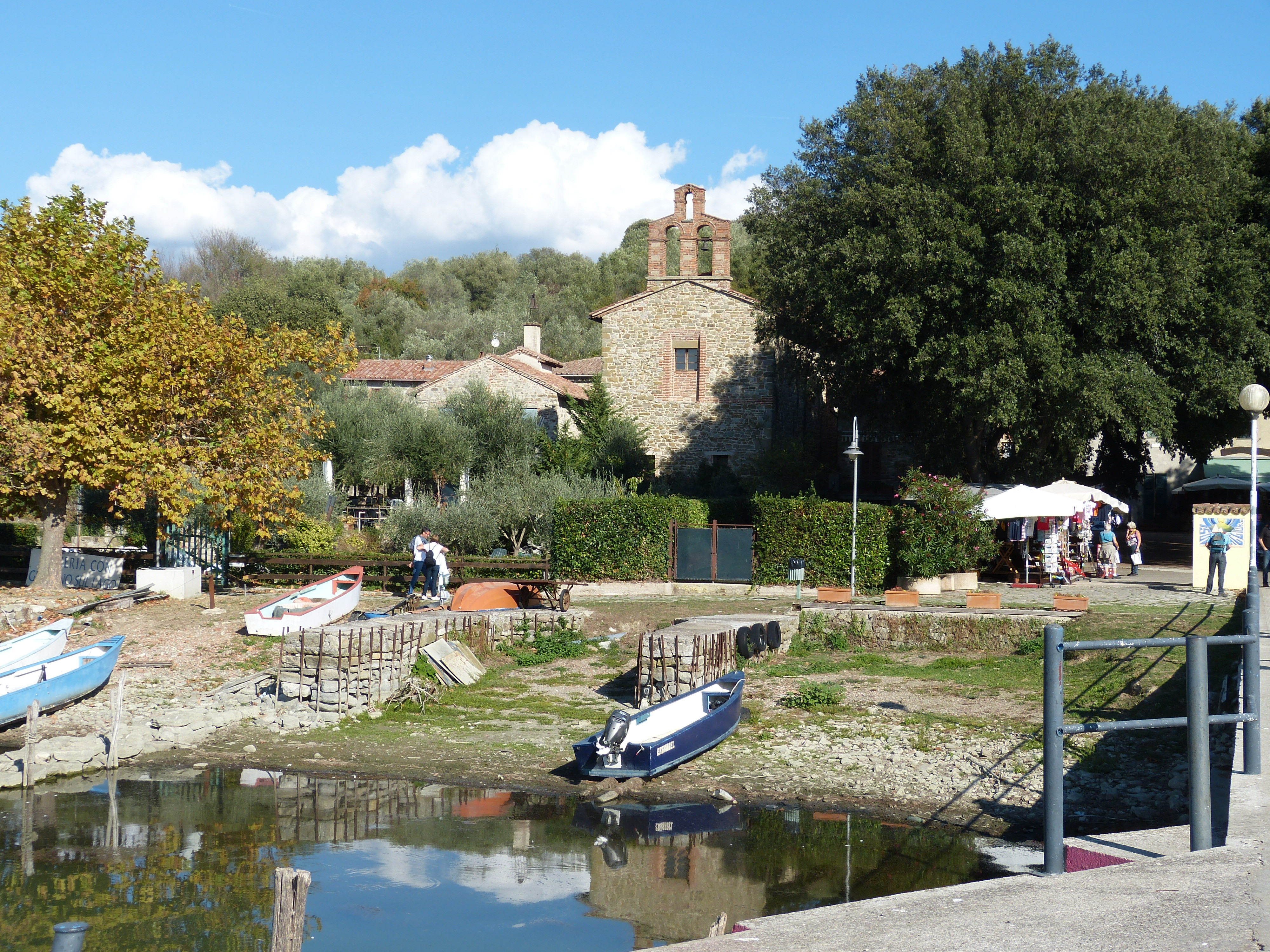 Lake Trasimeno ( Umbria ). Isola Maggiore: Harbour.